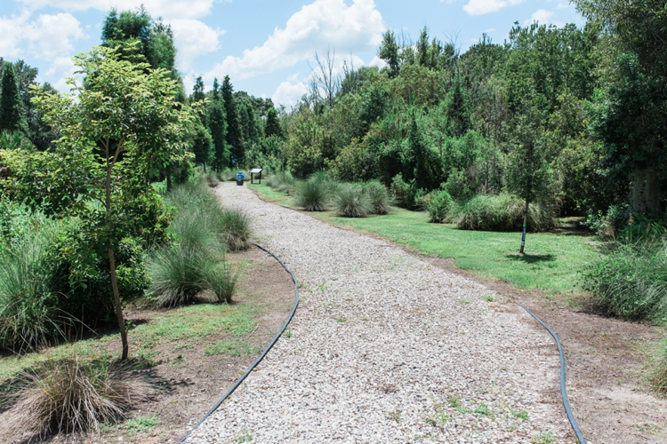 Image of a Mulberry Trail.